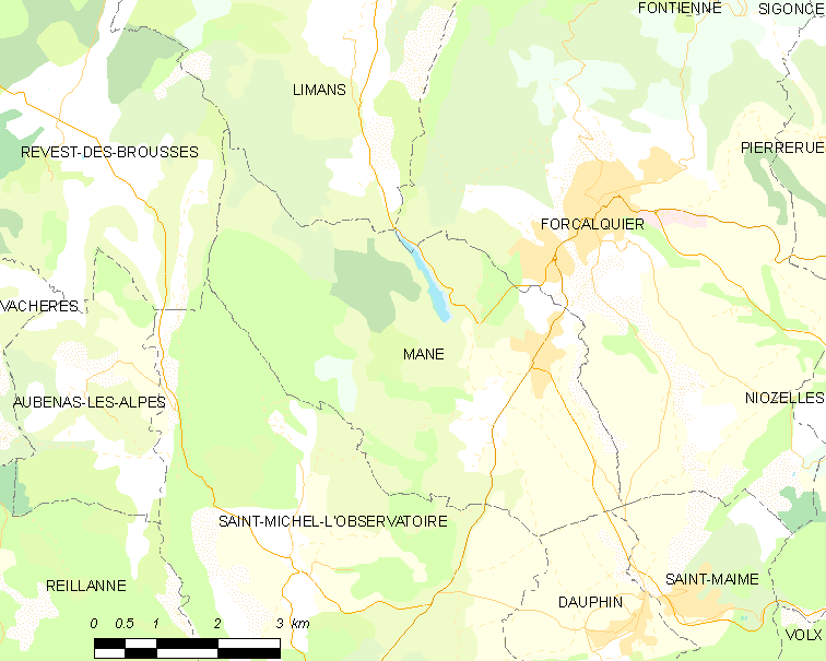 Map commune FR insee code 04111.png Légende